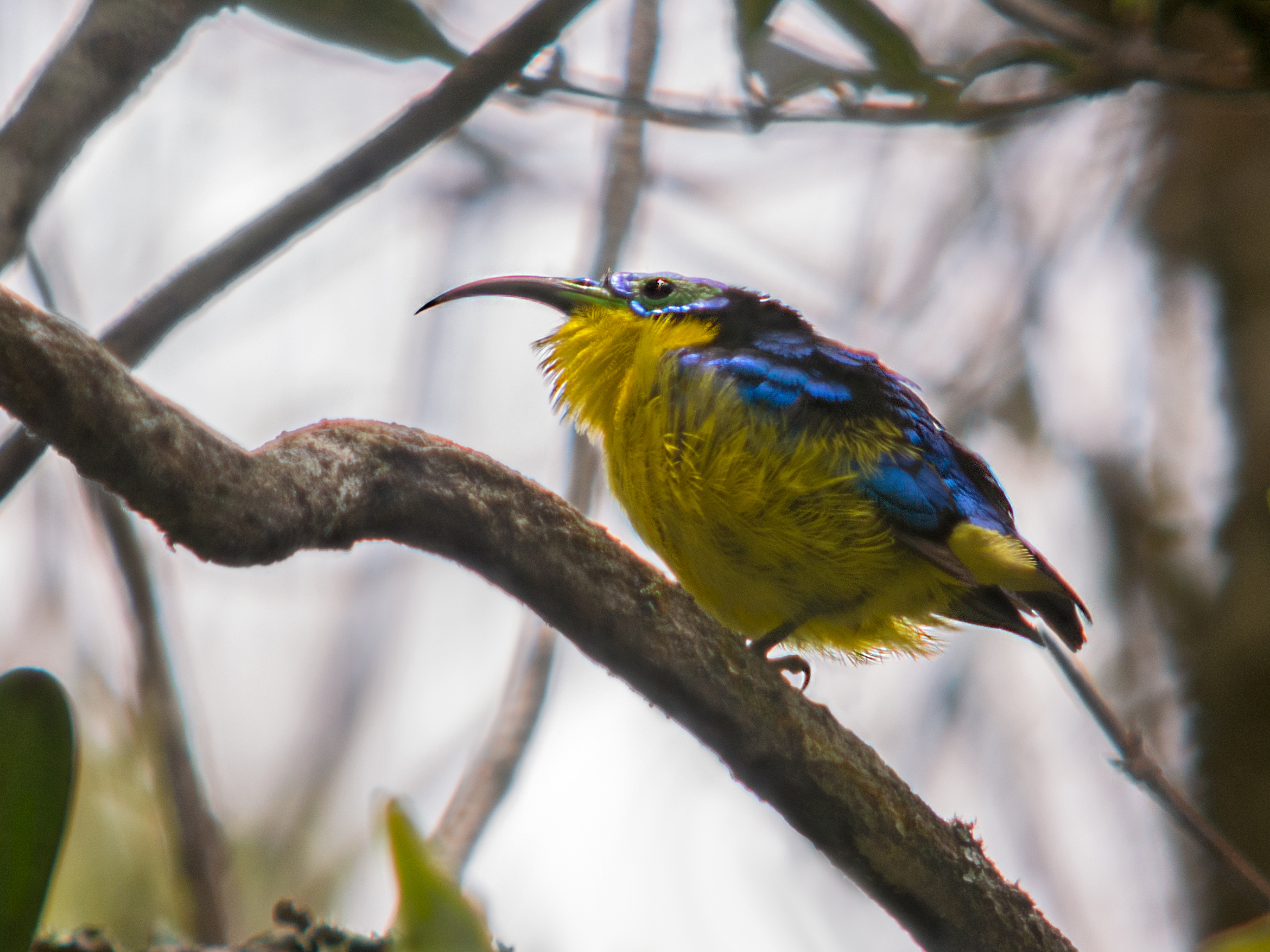 Yellow-bellied Sunbird-Asity (Neodrepanis hypoxantha) at Ranomafana National Park, Madagascar. Photograph taken by digiscoping with Swarovski ATM 80 HD 30 X, Nikon1 V1 + 11-27,5 mm lens (Adapter DCB)